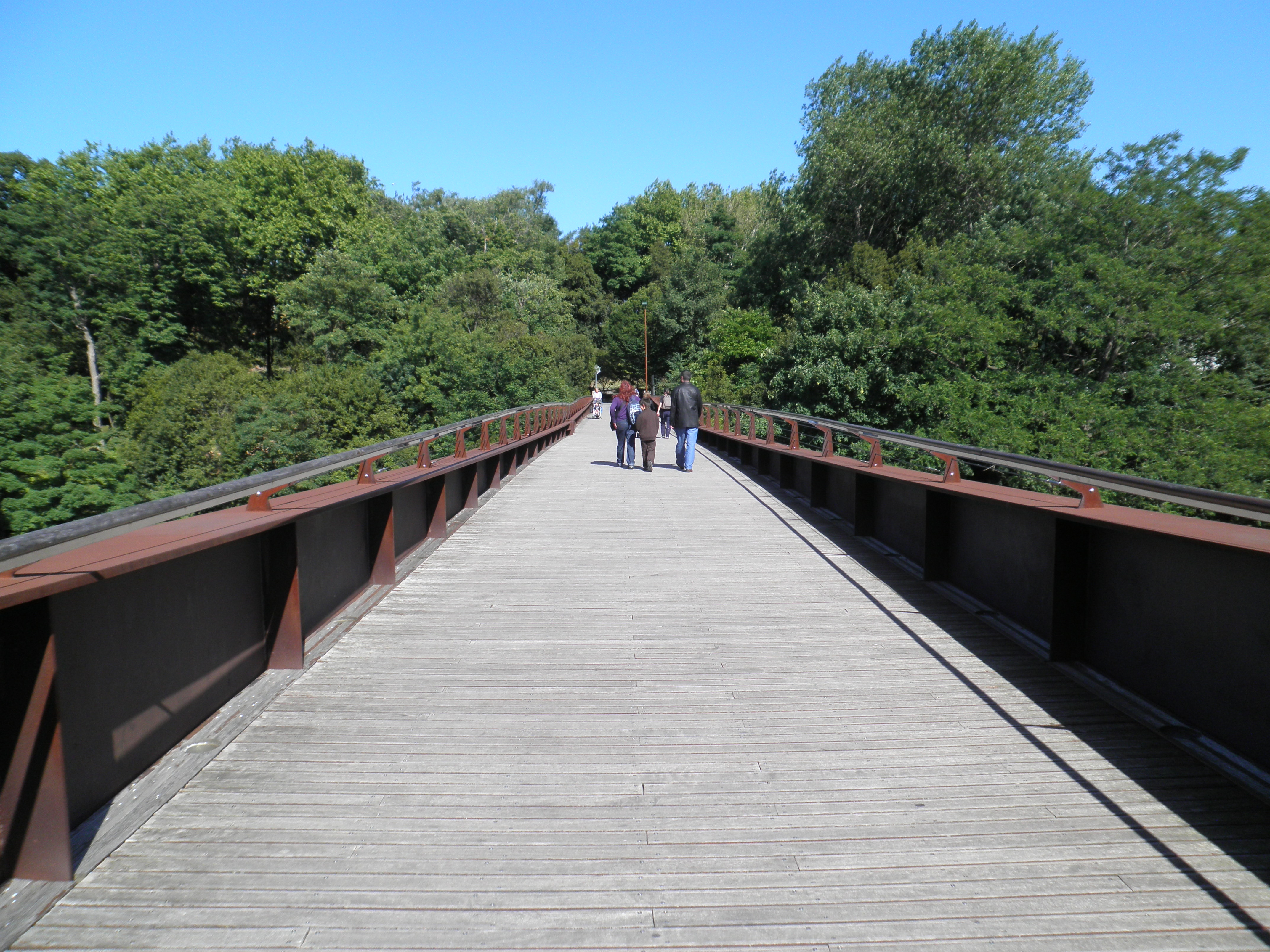 Gladys del Estal bridge, giving access to Cristina Enea gardens.